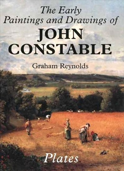 The early paintings and drawings of John Constable book cover